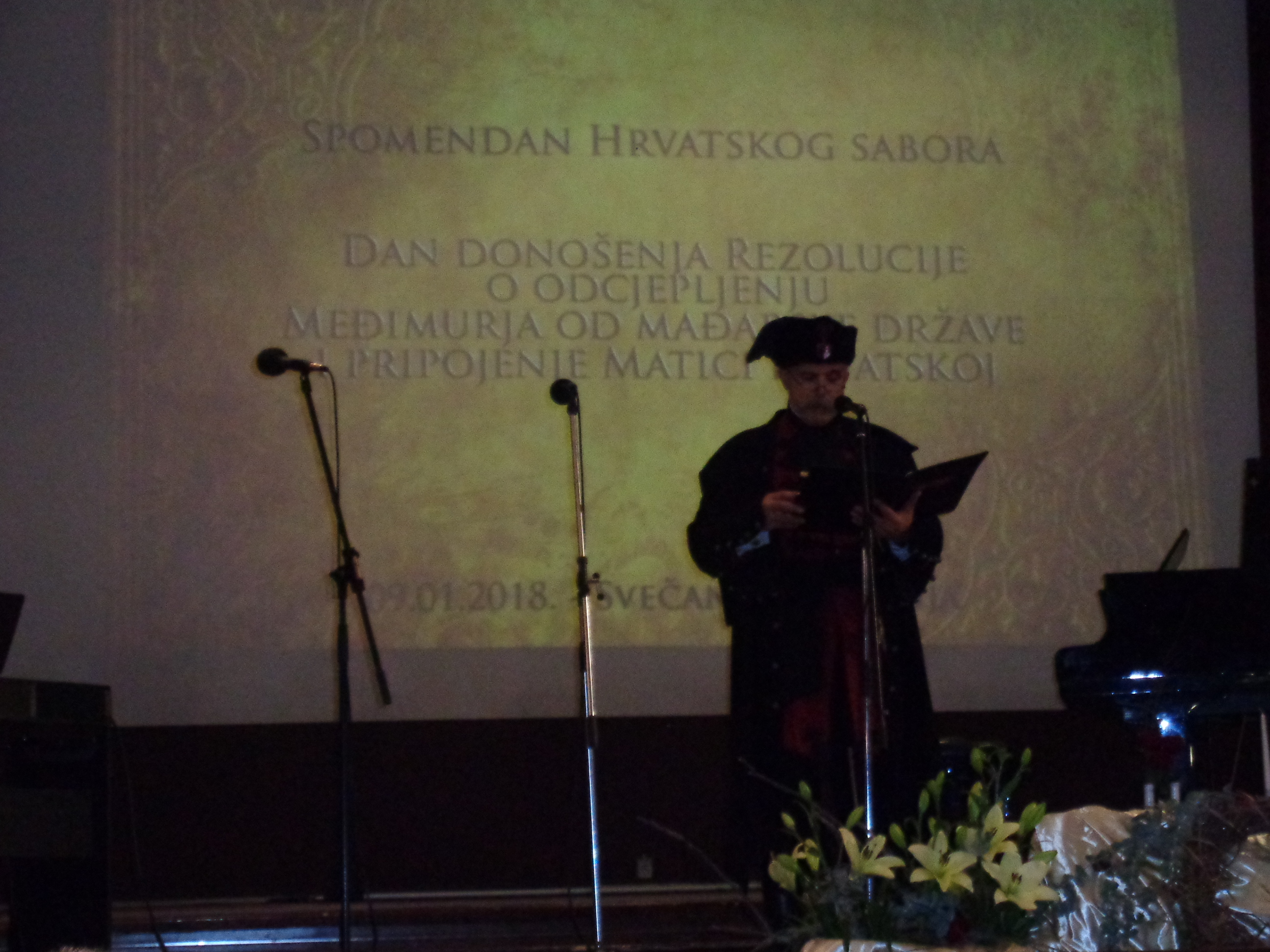 99th Anniversary of the 1918 Liberation of Medjimurie, Croatia, in Čakovec: member of the Zrinski Honour Guard speaking